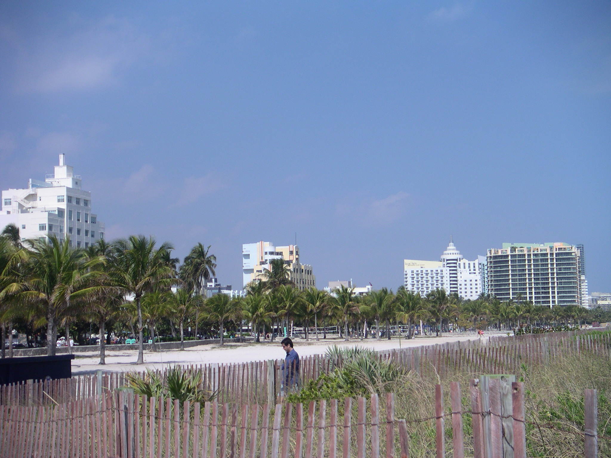 South Beach — in the City of Miami Beach, Florida. -- Feb. 2004